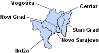 Divisions of Canton Sarajevo (without municitipalities Trnovo and Hadžići)